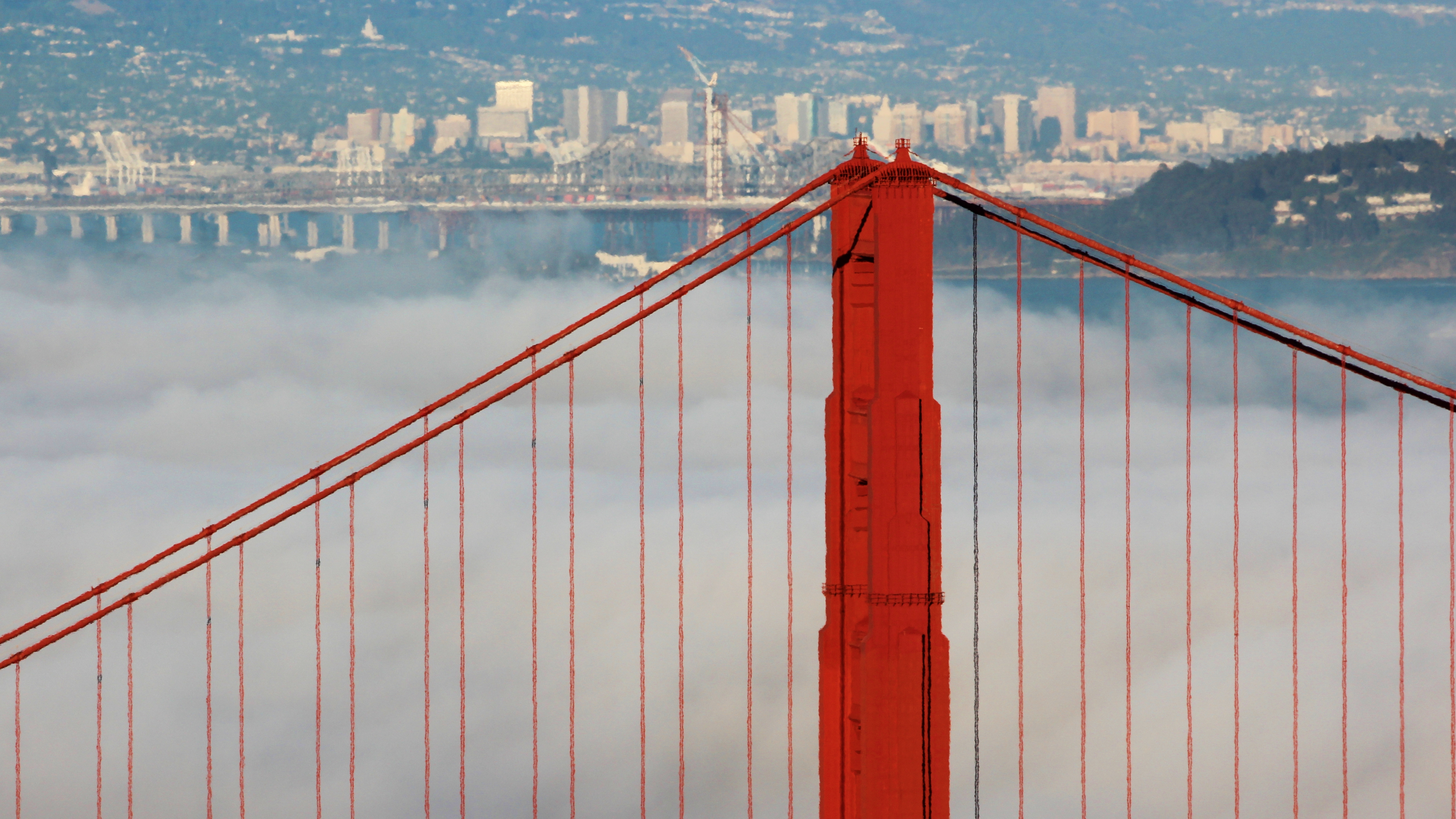 View from Marin Headlands, Marin County, California.